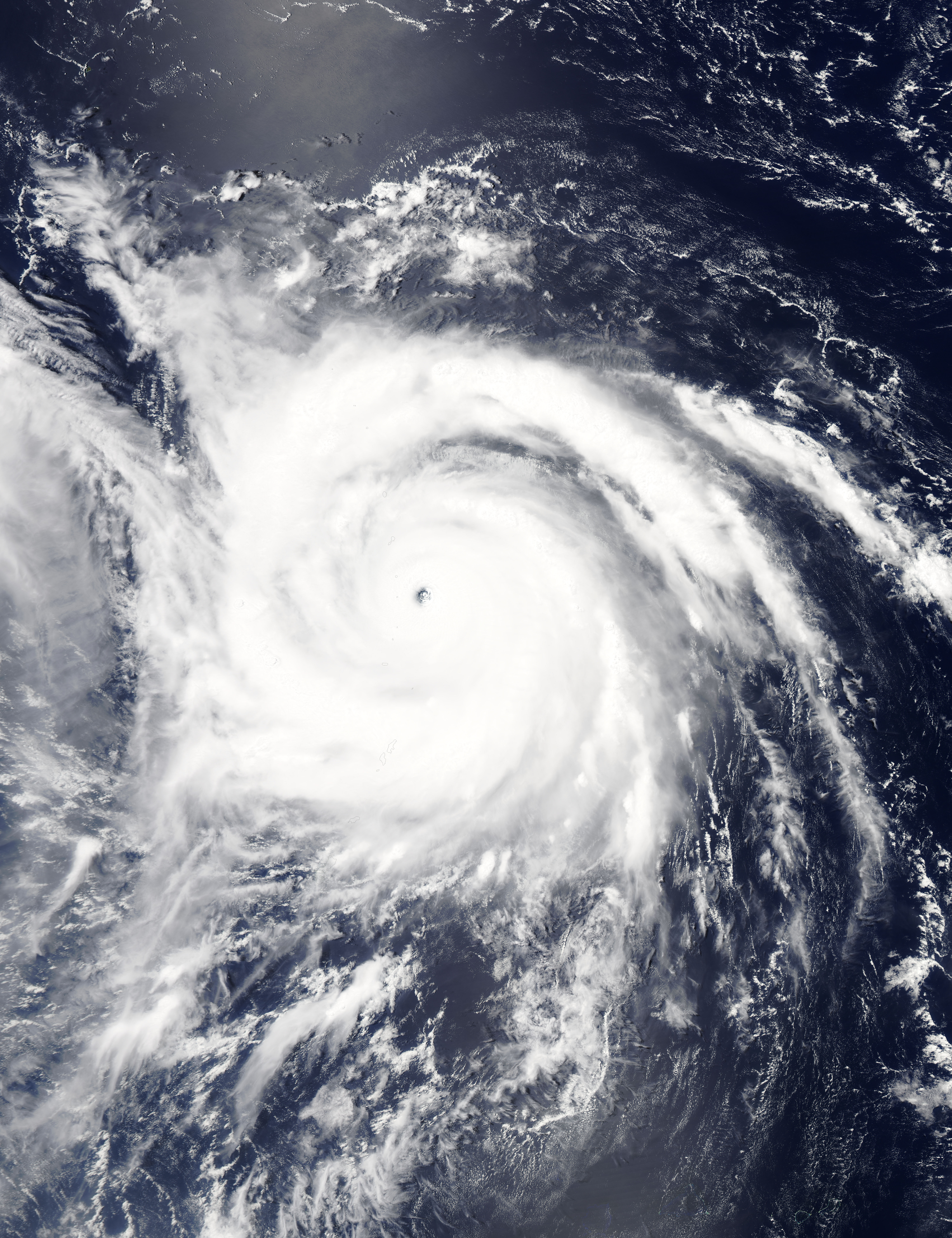 Typhoon Nangka near its peak intensity and located southeast of Alamagan island, Northern Mariana Islands on July 9, 2015.